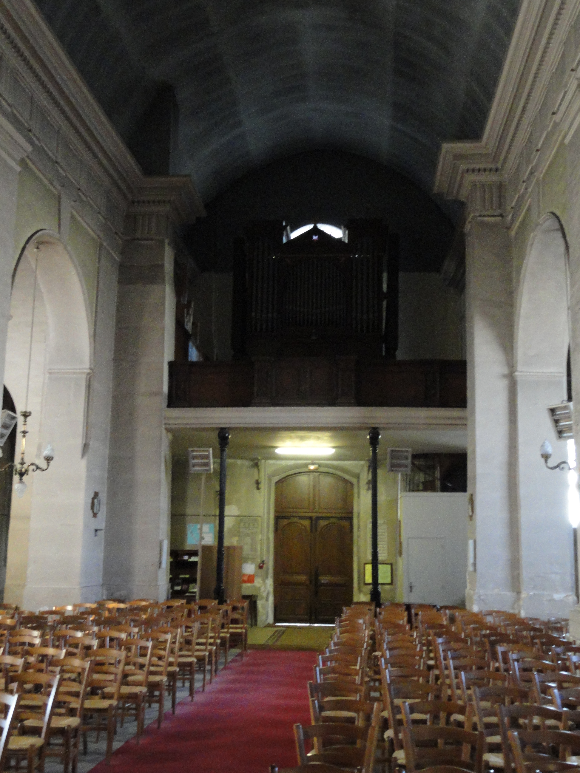 Church Saint-Germain l'Auxerrois of Pantin- Historic monument - The organ